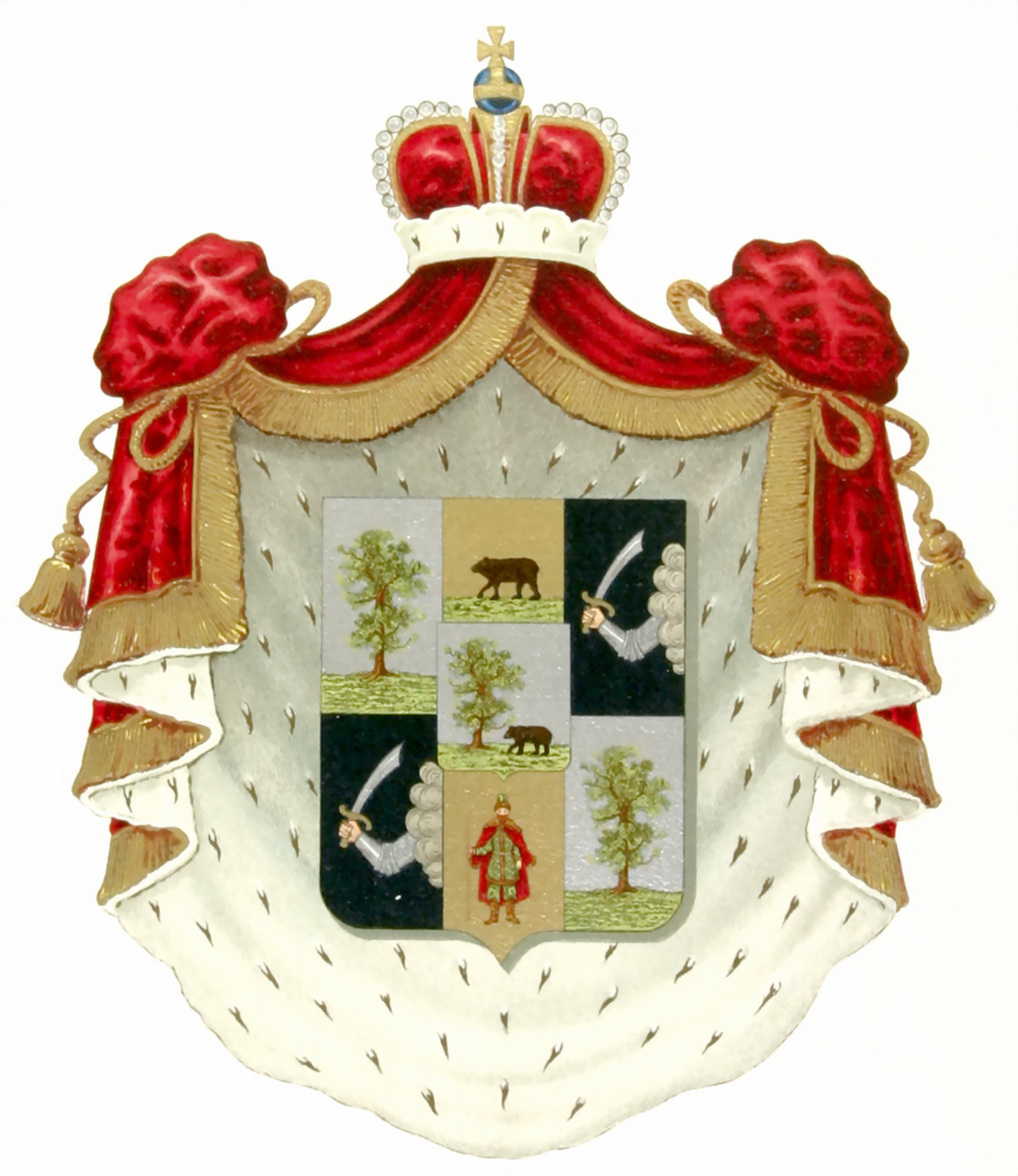 Coat of Arms of family Romodanowski